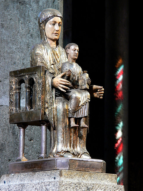 12th century statue of Virgin and child. Basilica of Our Lady of Orcival, Auvegne, France.